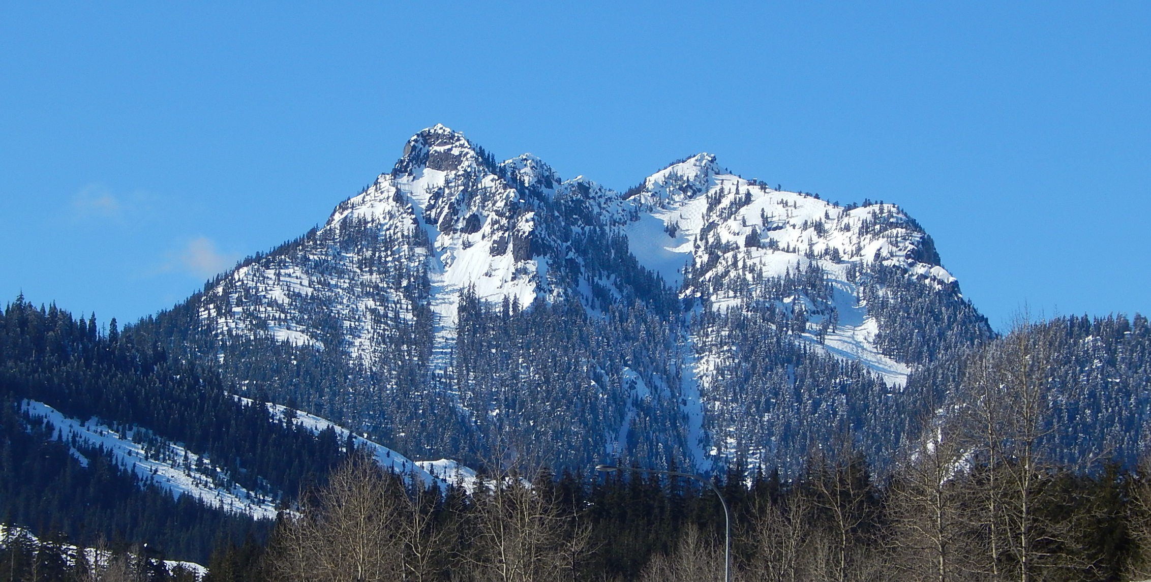 Denny Mountain in the Cascade mountain range, at Snoqualmie Pass in Washington state.